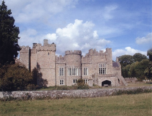 Featherstone Castle is a large Gothic style country mansion situated on the bank of the River South Tyne approximately three miles southwest of the town of Haltwhistle in Northumberland (grid reference NY674610).